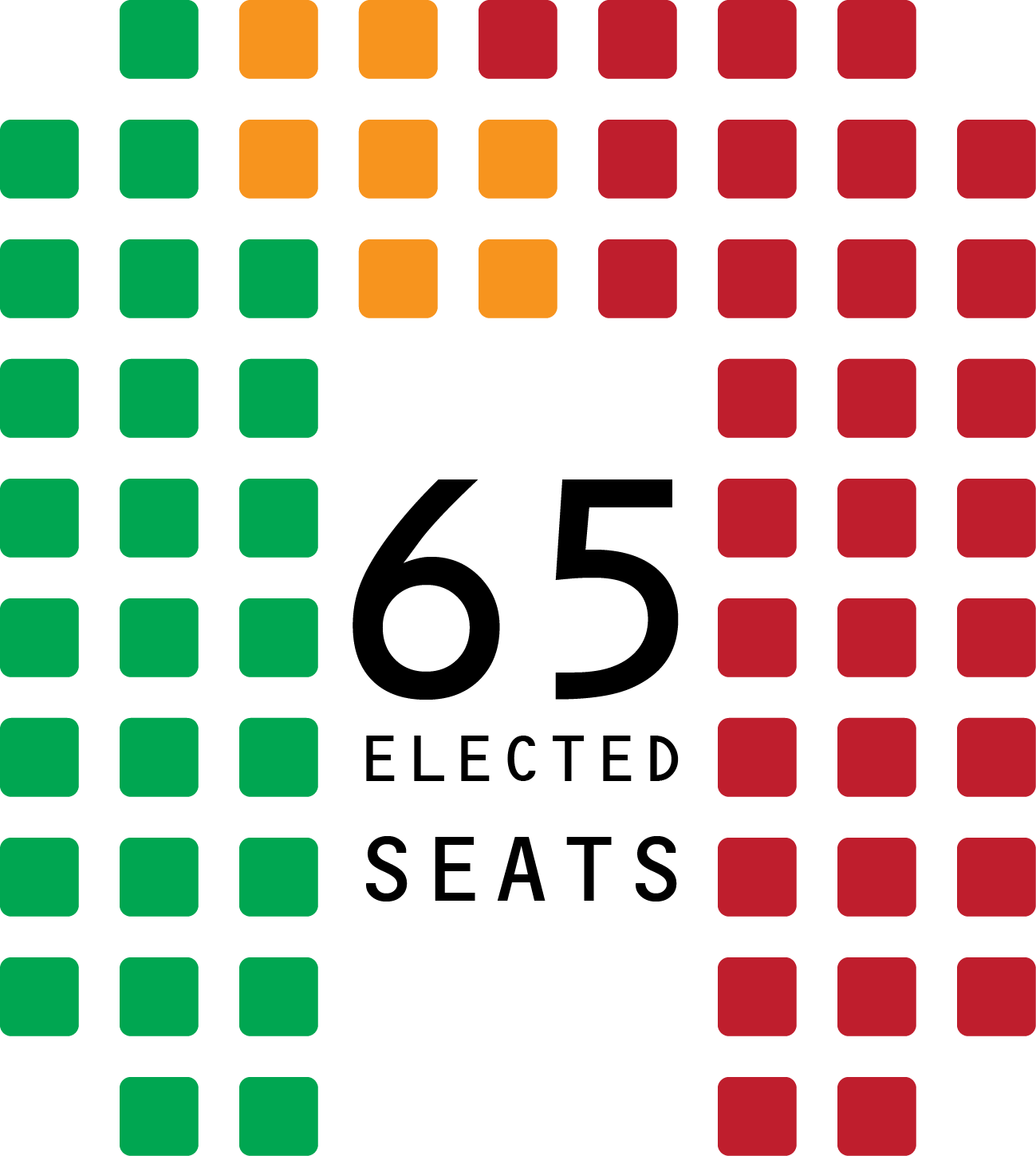 Distribution of seats in the Tenth Parliament of Guyana after the 2011 General and Regional Elections. As of December 2011. People's Progressive Party (PPP) (32) A Partnership for National Unity (APNU) (26) Alliance for Change (AFC) (7)